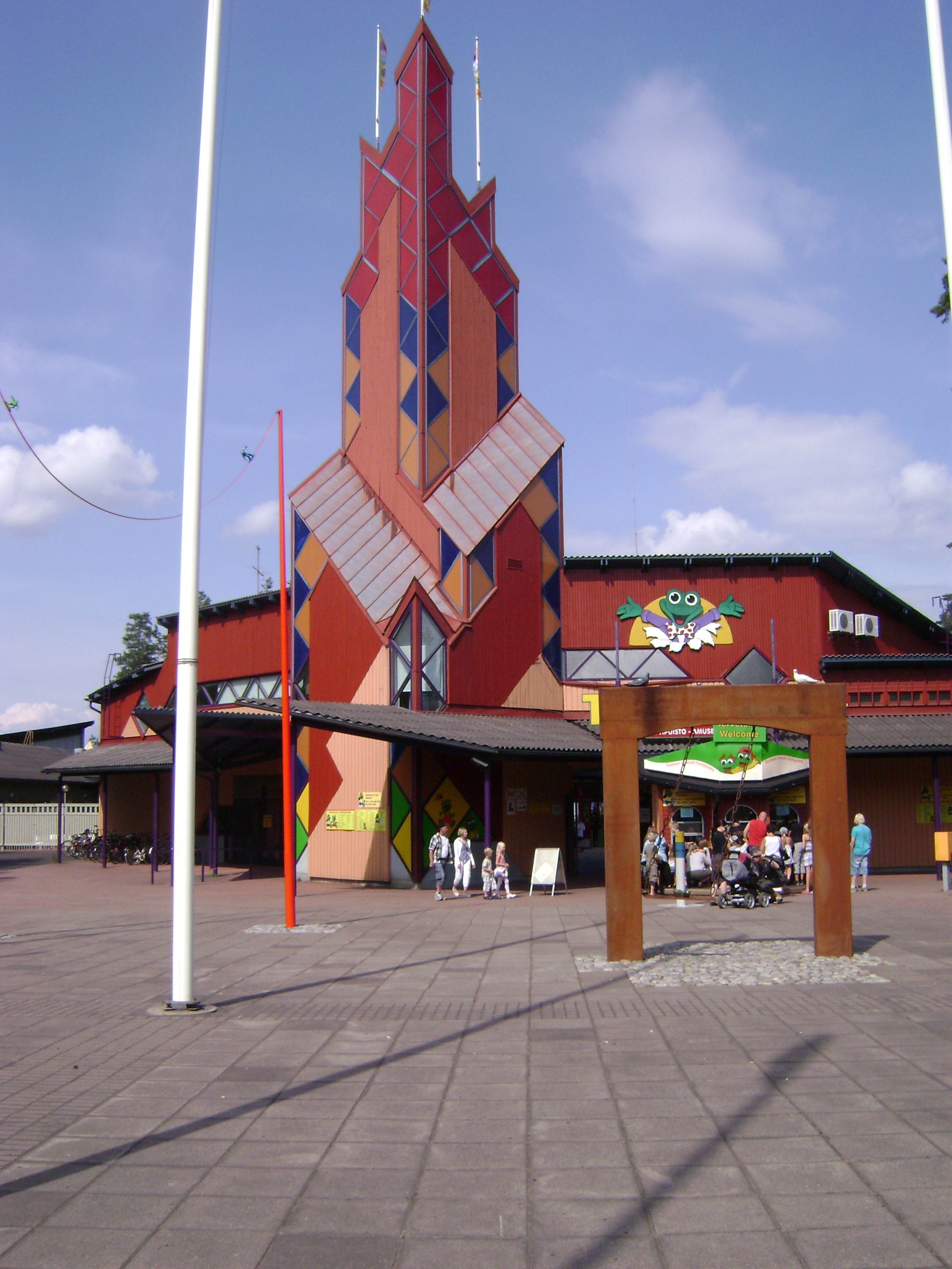 Entrance to Tykkimäki amusement park in Kouvola, Finland.